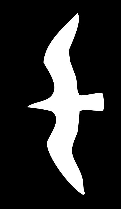 An example of a layer mask which can be used on another layer in an image editing application.